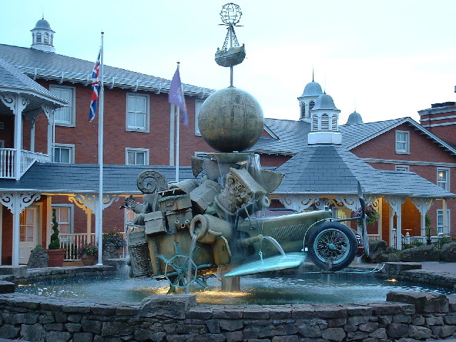 Alton Towers Hotel, Staffordshire. The fountain in front of the Alton Towers Hotel